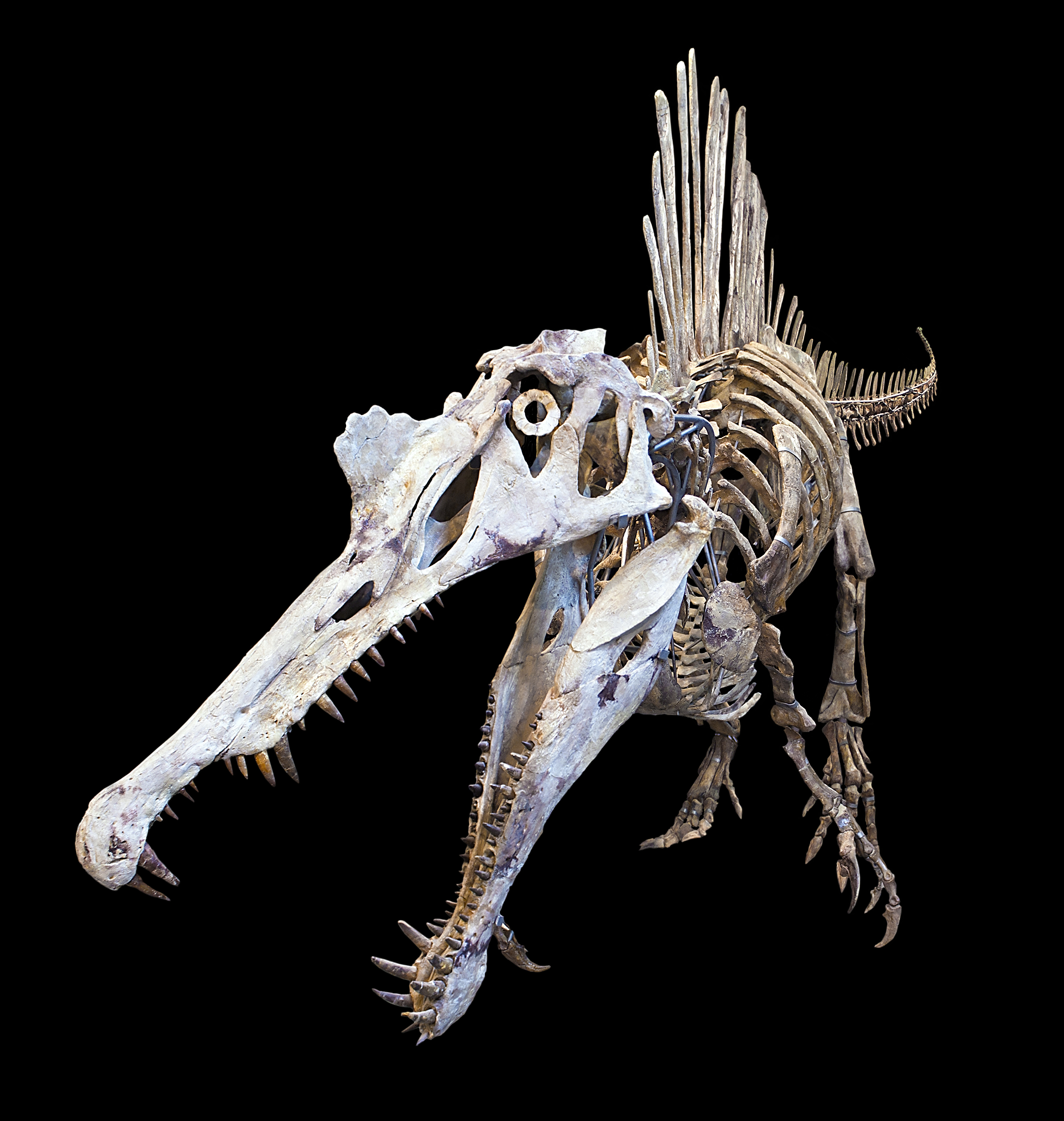 Spinosaurus aegyptiacus ; Morroco ; Private collection Stage : Albian-Cenomanian (112-93 Ma) Size : 8,40 m